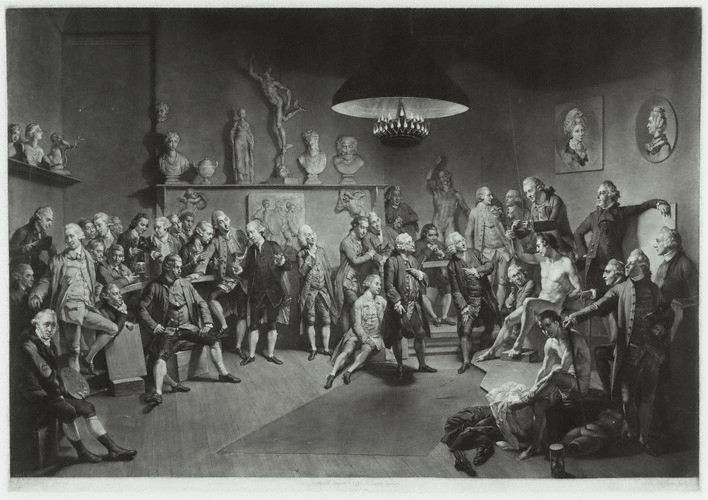 "The Academicians of the Royal Academy," engraving by Richard Ealom. Image courtesy of the National Portrait Gallery, London.